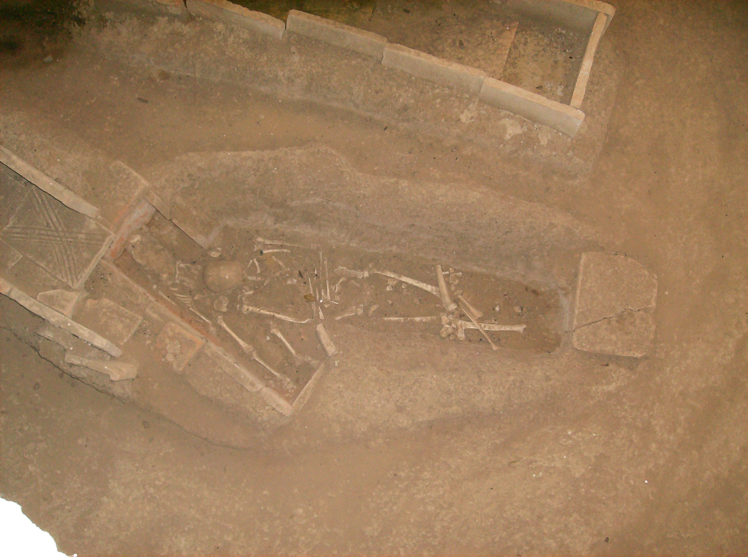 This is a skelet of a mother and children died in the plague in roman city Viminacium around 251 AD.They are burried together in the nooble part of a viminacium grave